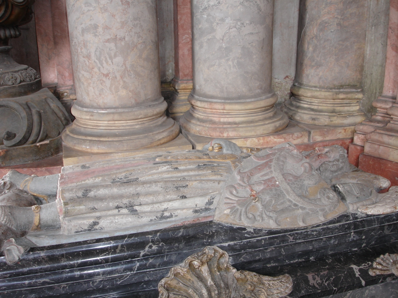 Sarcophagus of Bolko I, Duke of Świdnica-Jawor, in Abbey of Krzeszów.